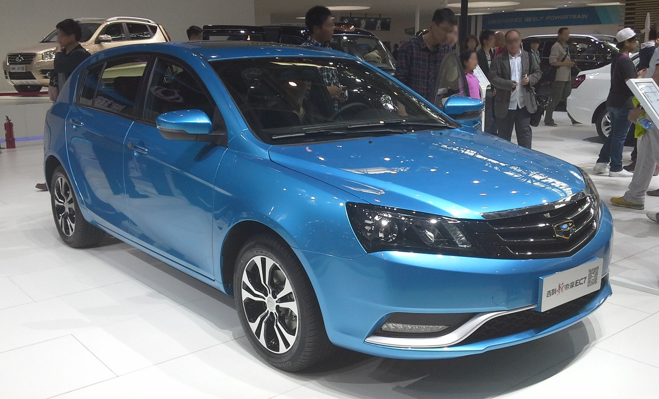 Emgrand EC7-RV facelift photographed at the Auto China 2014, Beijing, China.